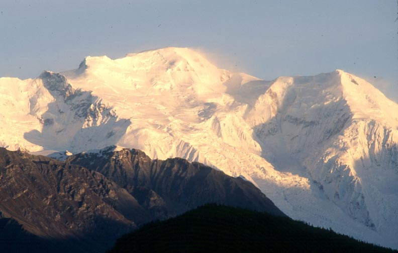 Wrangell-Saint Elias Wilderness, Alaska